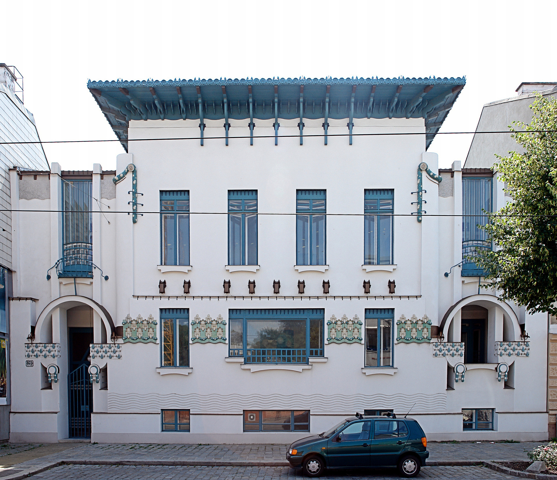 Villa Vojcsik (Vienna, Austria) - Otto Schönthal - Perspective corrected to emphasize building symetry